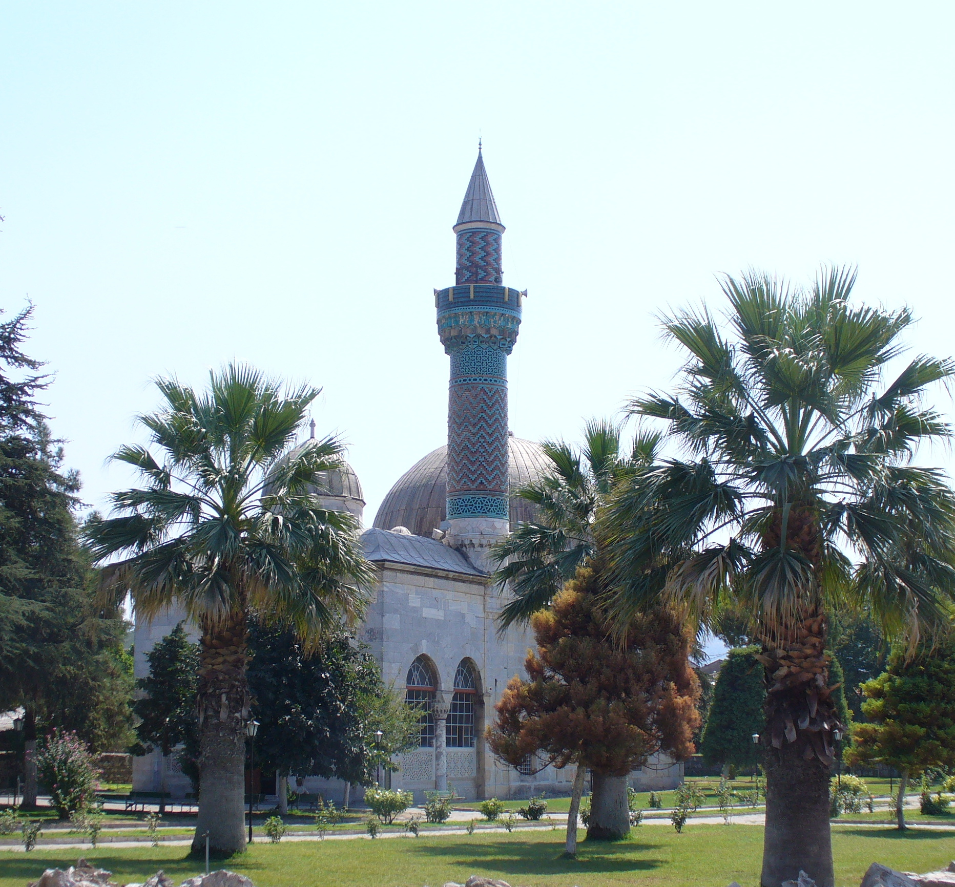 The Green Mosque (Yeşil Cami) in Iznik.